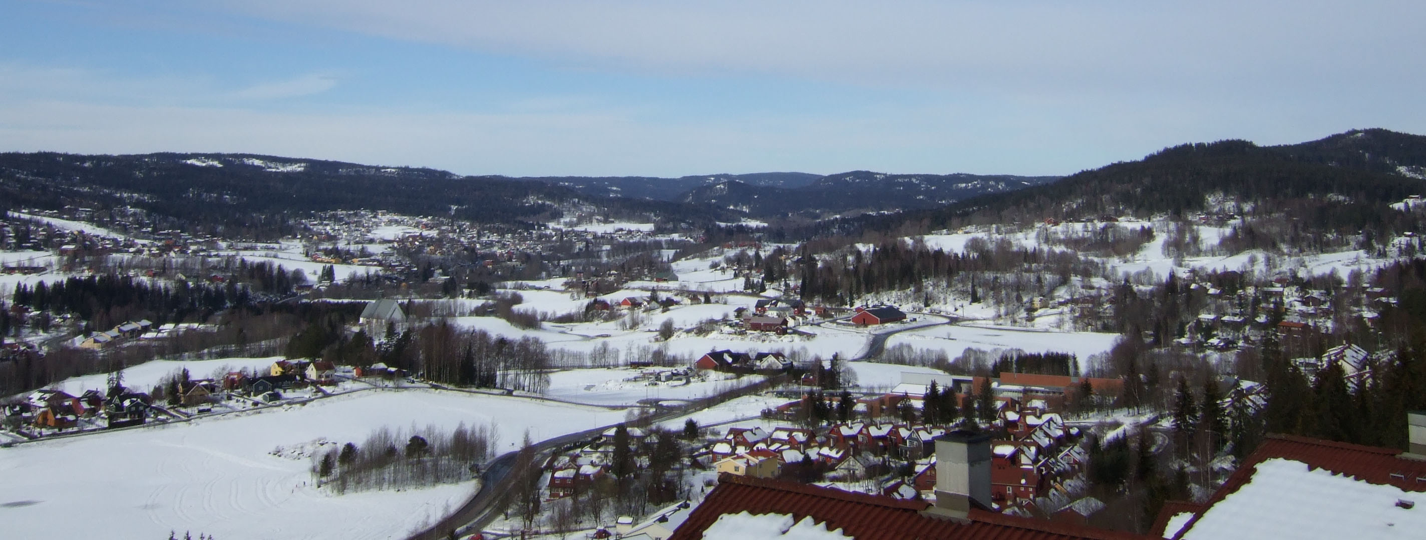 A picture of Lommedalen ("Pocket Valley") in Bærum, Norway